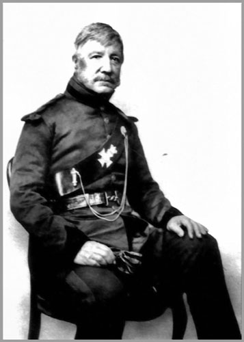 Major Edmund Lockyer, soldier and landowner in Australia.